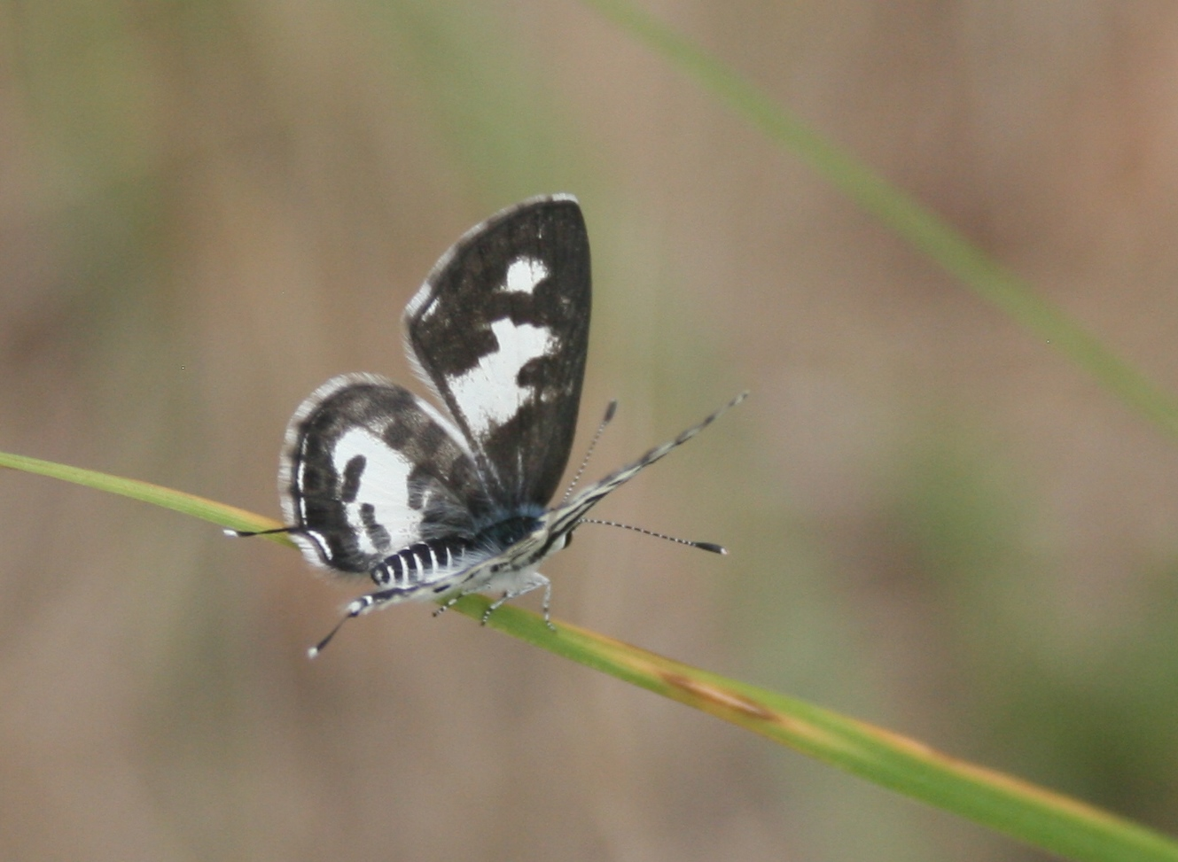 Tuxentius calice subsp calice